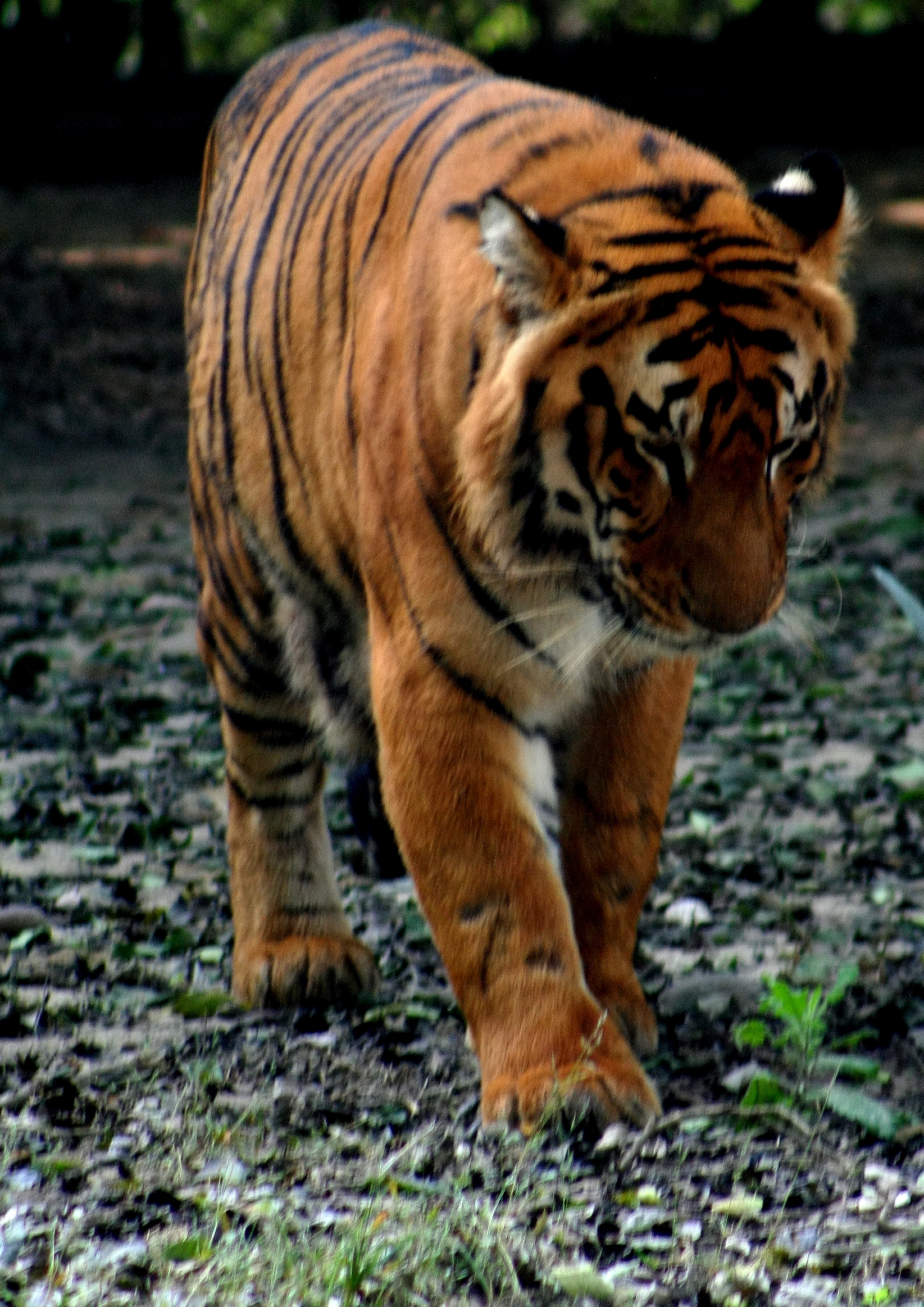 The newly brought Tigress at the Kanpur Zoological Garden